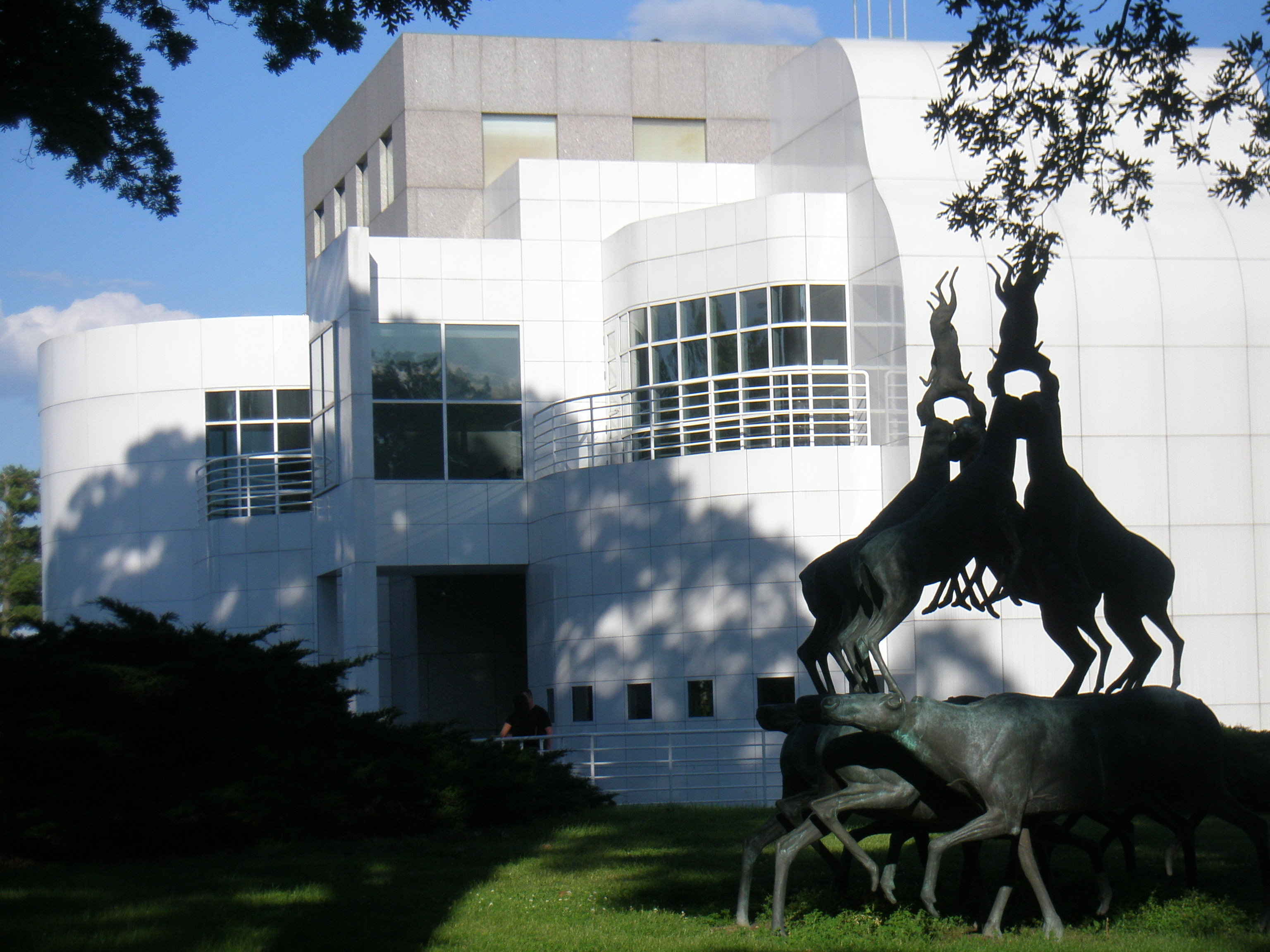 Des Moines Art Center